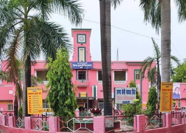 District Hospital Raebareli